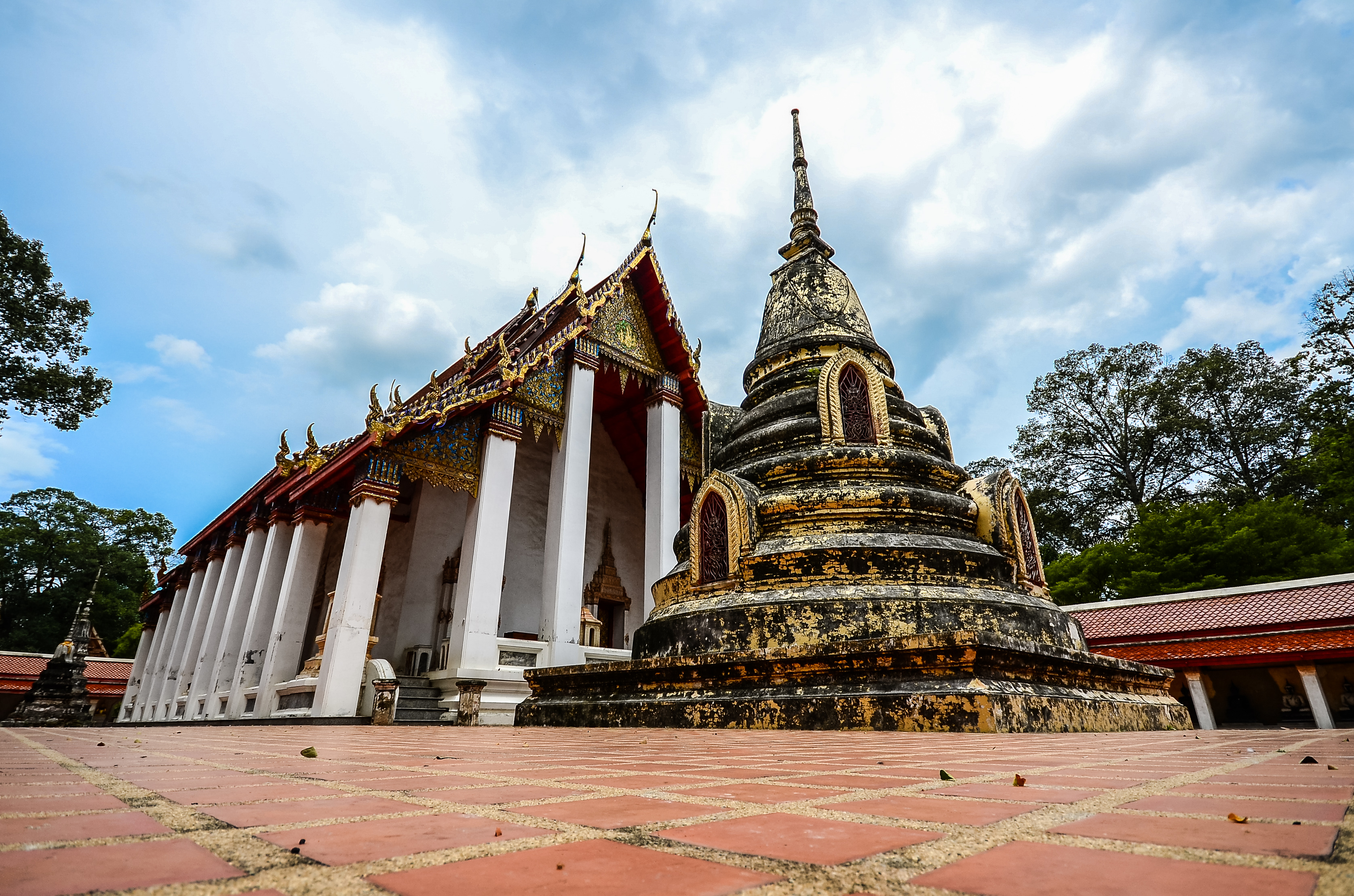 วัดขนอน